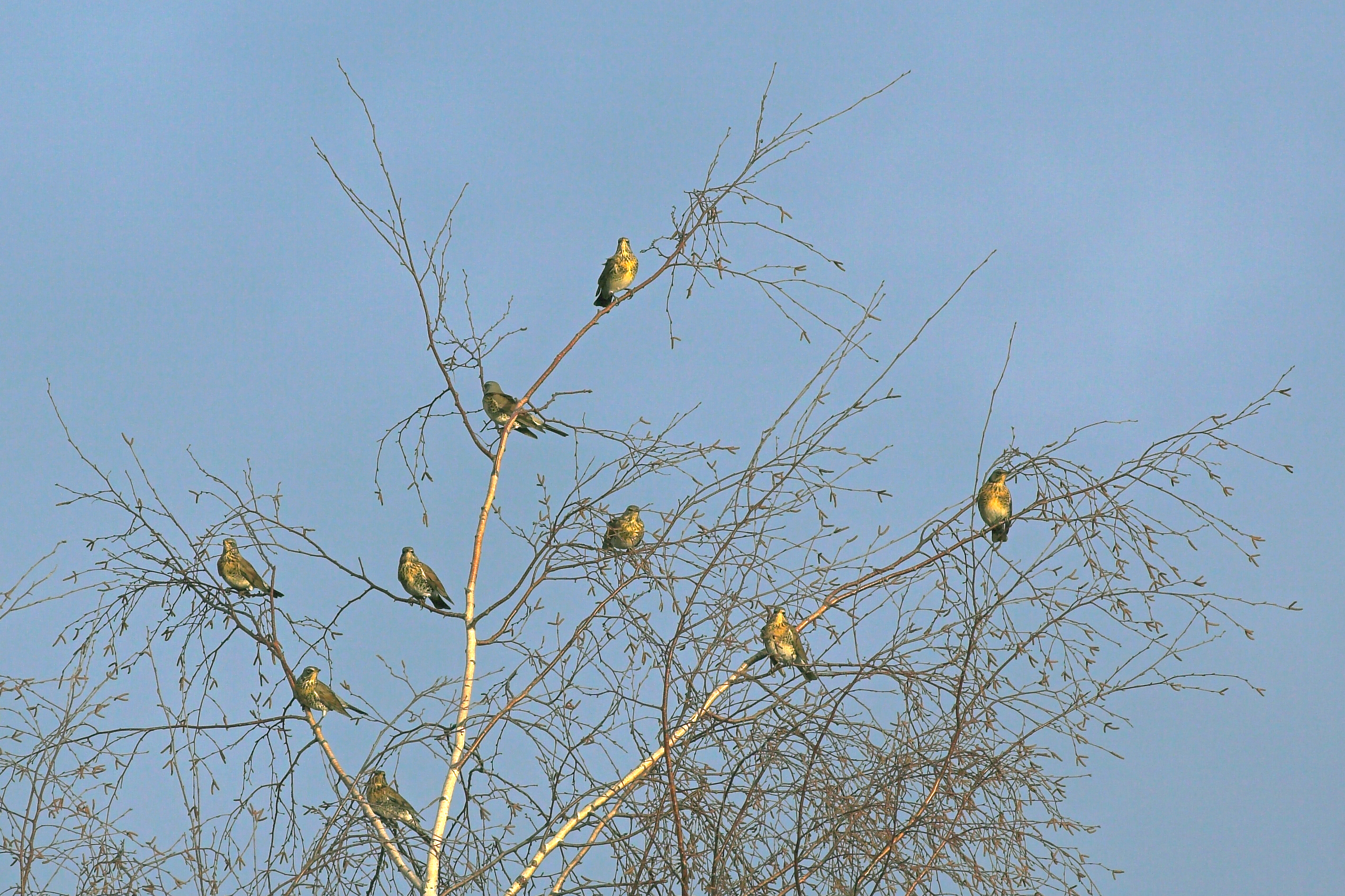 Flock of fieldfares in golden autumn light. Photo by Thermos.